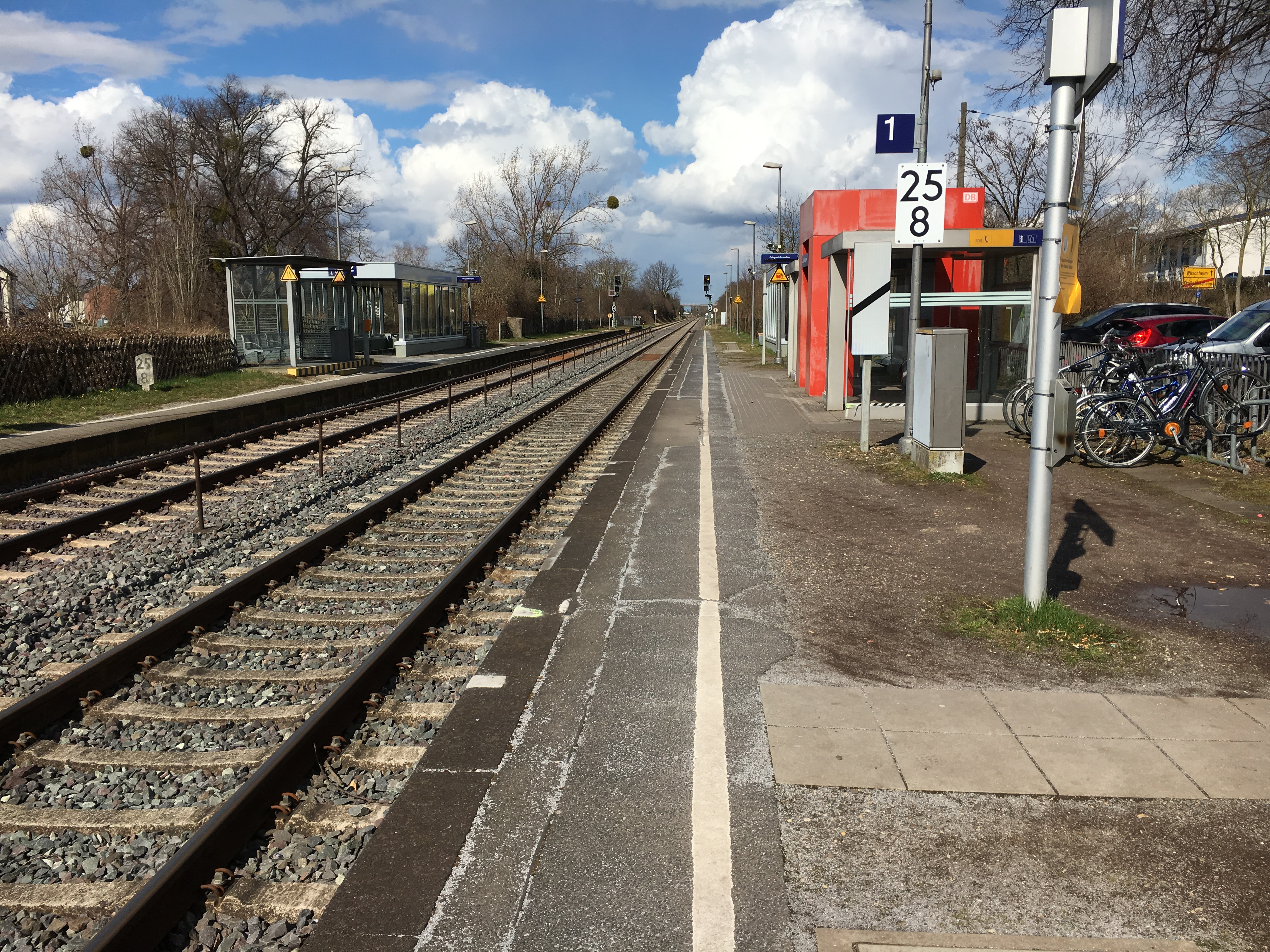 train station Großbüllesheim after the renewal of the railway infrastructure in 2017 (renewal of rails, signals, benches etc.). In the picture one can see the shelters with view to the destination Cologne. To the left there ist Wüschheim and on the right is Großbüllesheim.